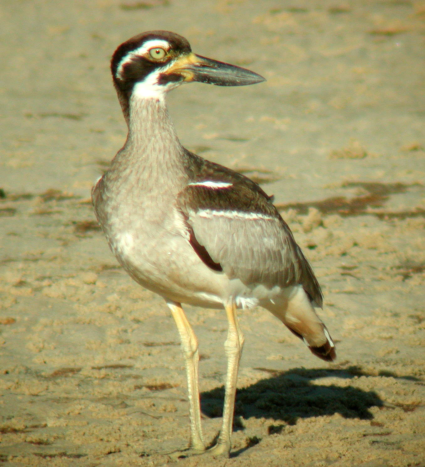 Beach Thick-knee (Esacus giganteus) Inskip Point, SE Queensland, Australia